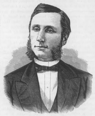 Edwin Walter Hall Born 1838, Watertown, N. Y. Died February 27, 1889, Greenville, Ky. B.A., Genesee College (now Syracuse University), 1863; M.A., Syracuse, 1866. Principal of High School, Watertown, N. Y., 1863-64. President, Greenville Female College, Ky., 1864-69; Chaddock College, Ill., 1869-78. Principal of Cazenovia Seminary, N. Y., 1878-80.